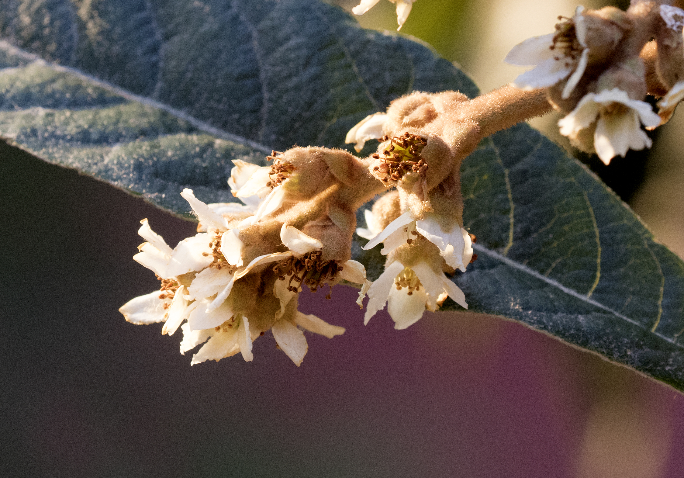 Flowers of loquat (Eriobotrya japonica). Seyhan - Adana, Turkey.